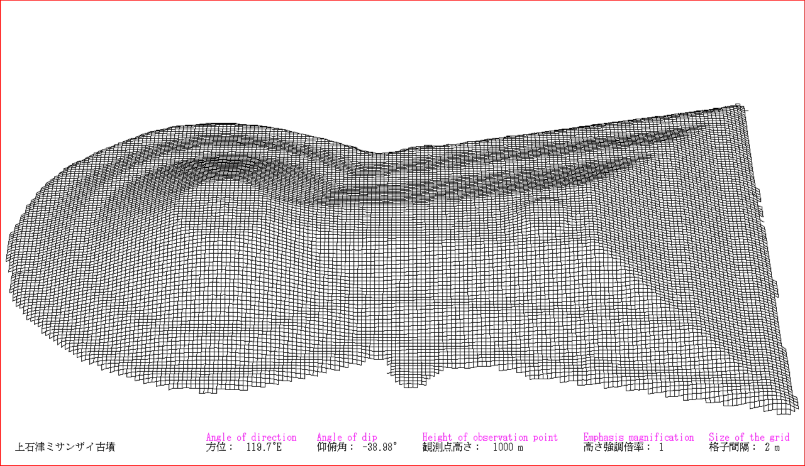 I who am a contributor drew the picture by a software which developed by myself. The survey map which I referred to depends on "「履中天皇陵古墳」『百舌鳥古墳群測量図集成』堺市 (2015年）". This is a drawing of present situation (not a drawing of a restored mound). The drawing depends on wire frame. Perspective projection.